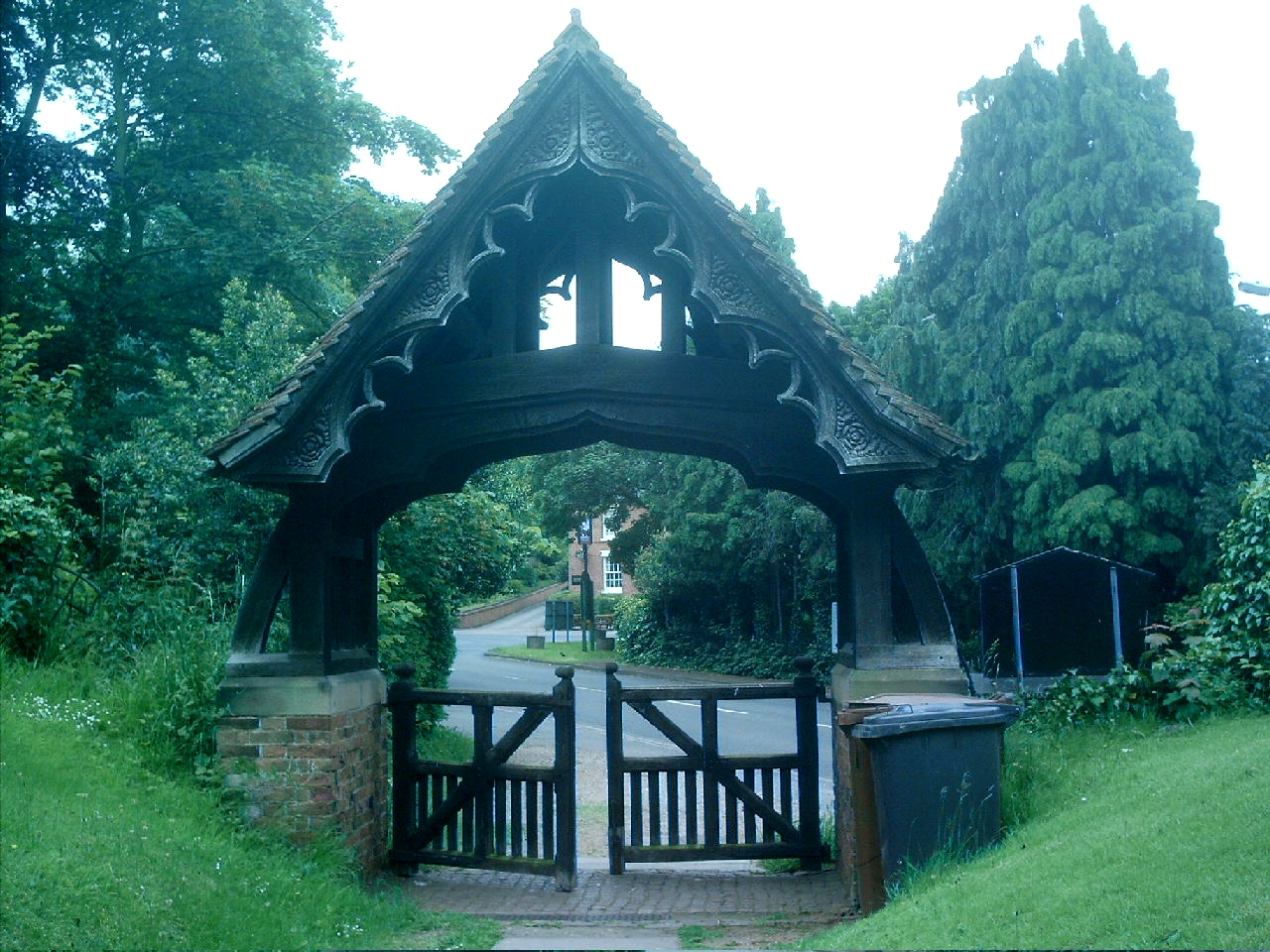 Walton on Trent lytch gate, South Derbyshire